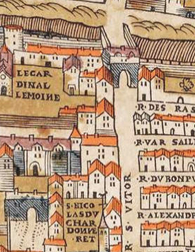 St-Victor gate on the plan de Truschet and Hoyau (1550).